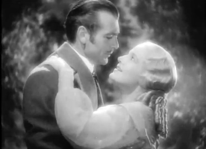 Gary Cooper and Ann Harding in the film trailer for Peter Ibbetson, 1935